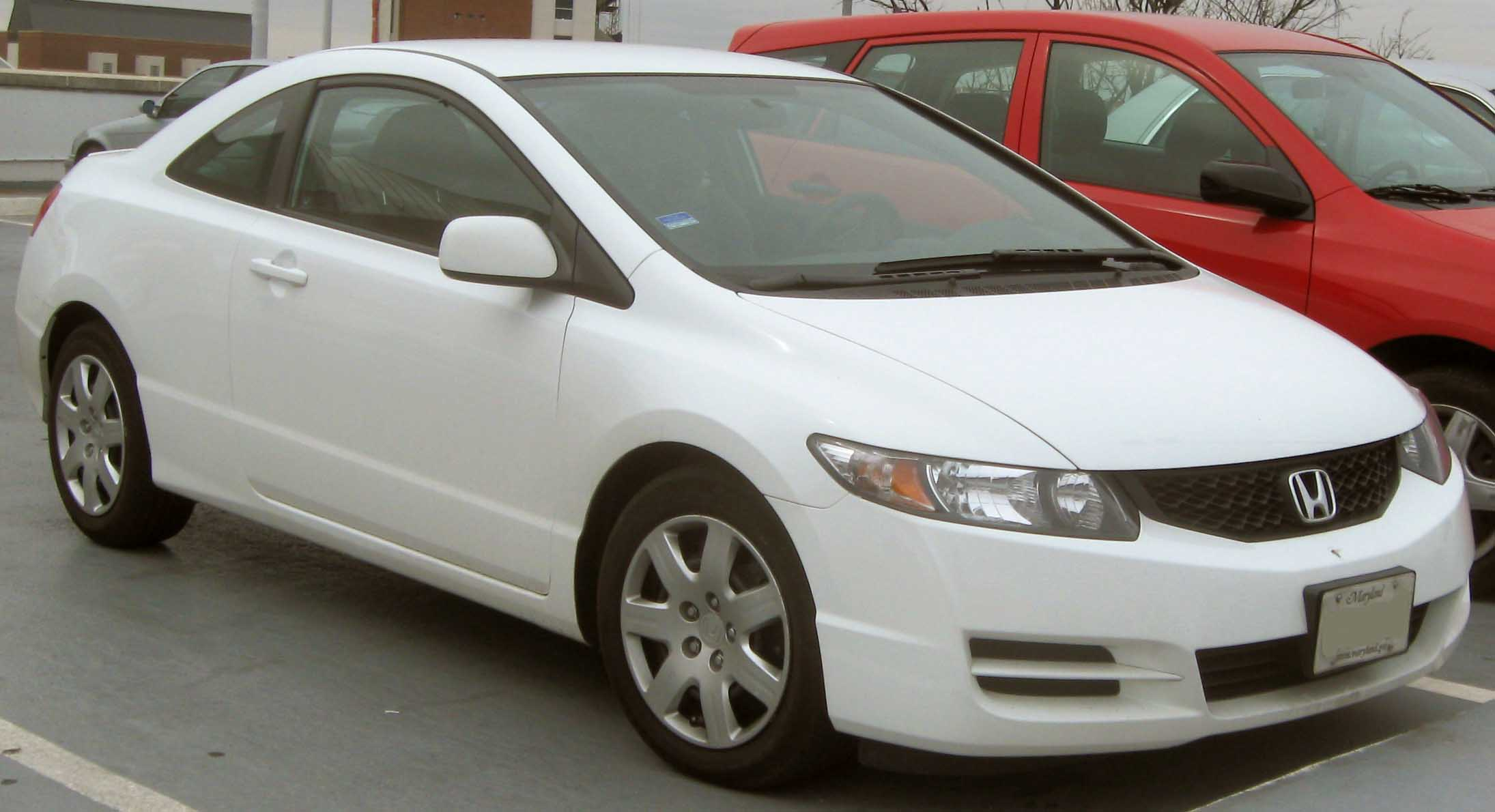 2009 Honda Civic photographed in College Park, Maryland, USA.